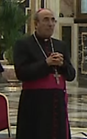 António Marto, Bishop of Leiria-Fátima, in 2015